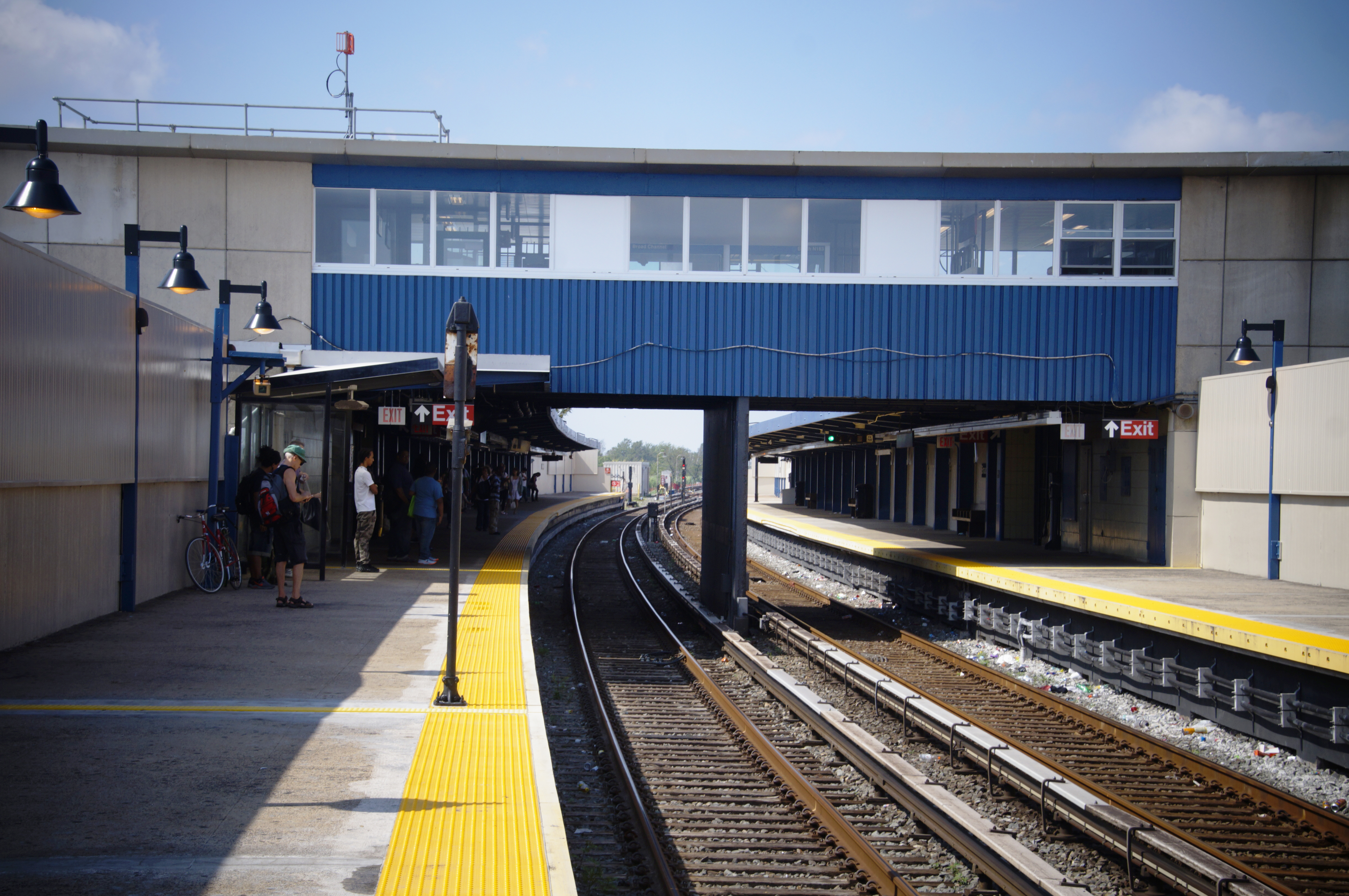 A view of the MTA NYC Subway Broad Channel Station.